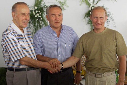 DAGOMYS, SOCHI. President Putin with Azerbaijani President Heidar Aliev and Kazakh President Nursultan Nazarbayev.